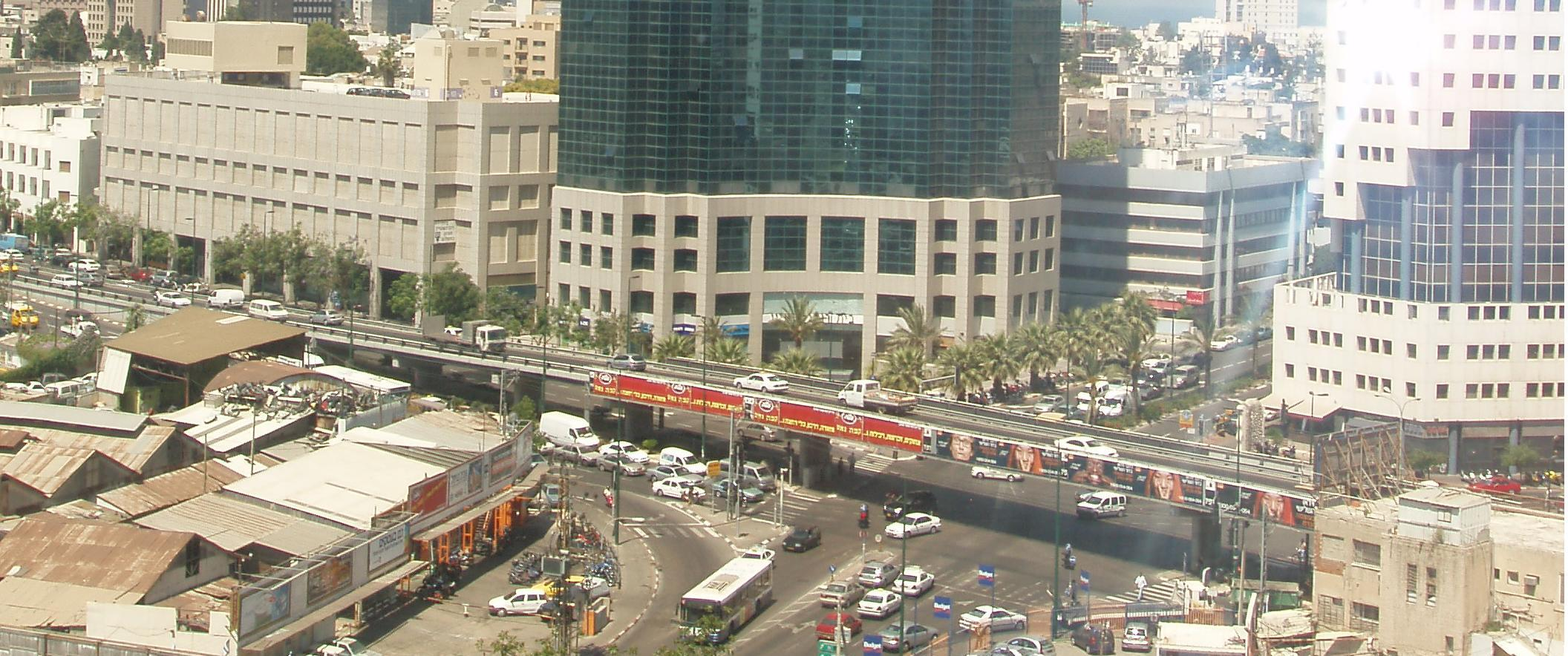 Gesher Hansharim (Gesher Maariv). Picture taken looking westbound.